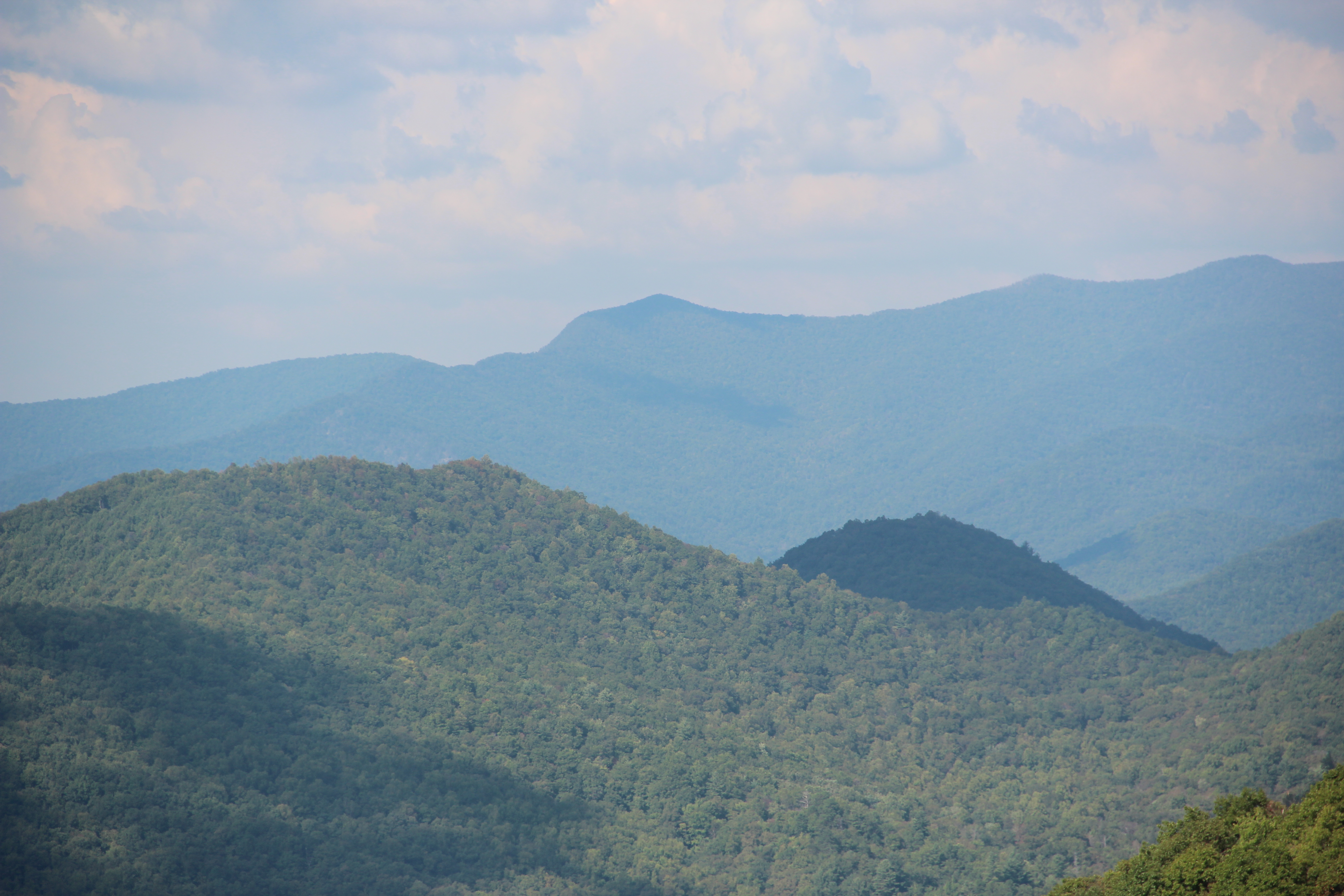 Locust Log Ridge from Hogpen Gap